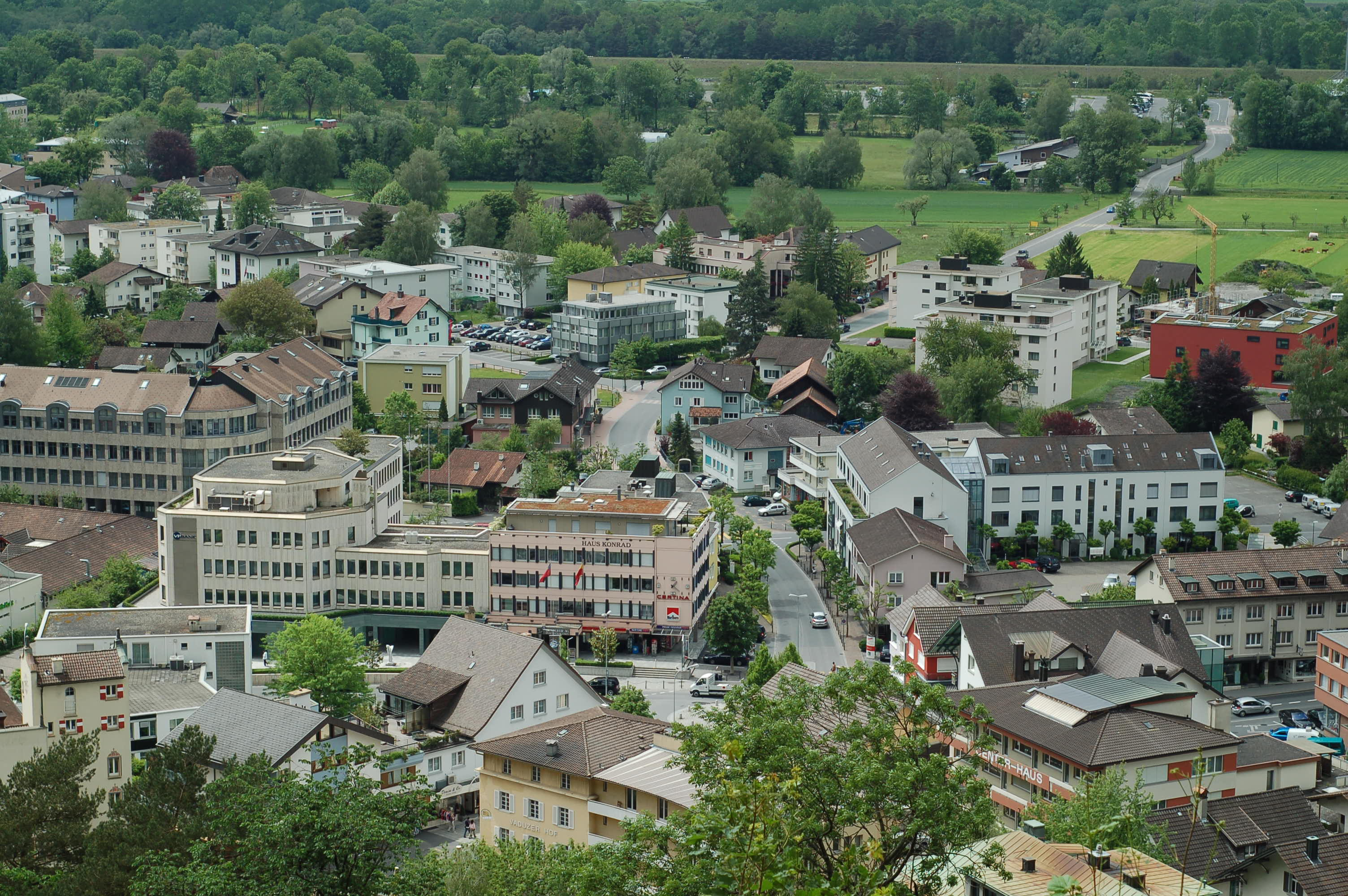 Vaduz, the capital of Liechtenstein View from castle hill on city centre